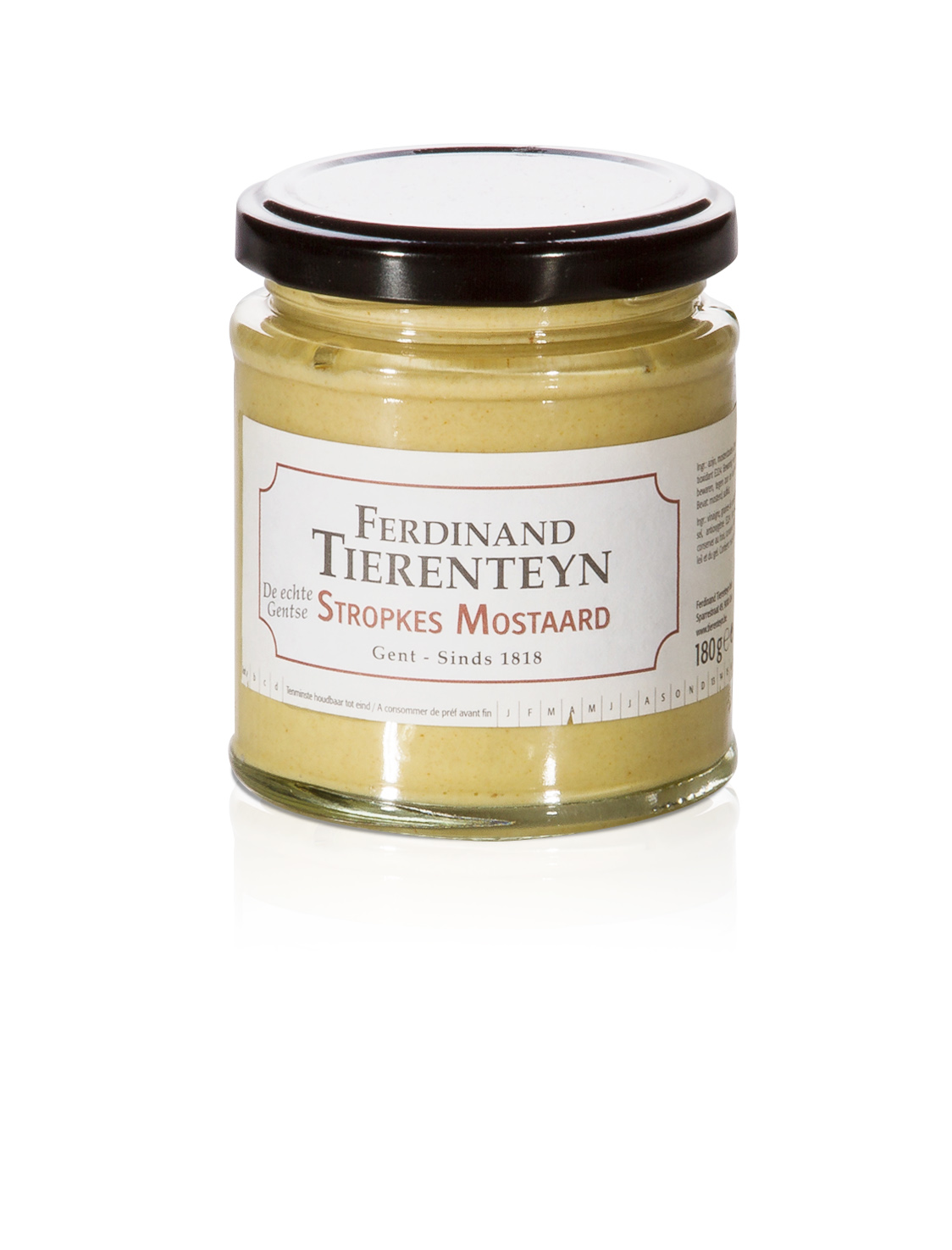 Stropkes mustard from Ferdinand Tierenteyn